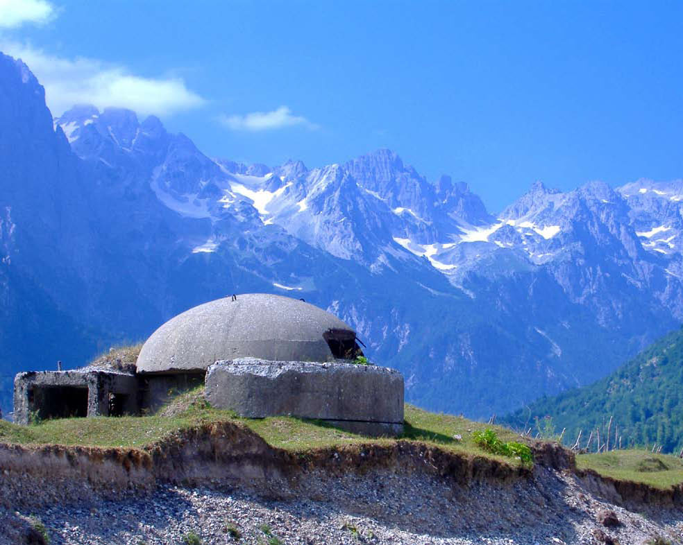 A Qendra Zjarri bunker in the Albanian Alps at Valbona